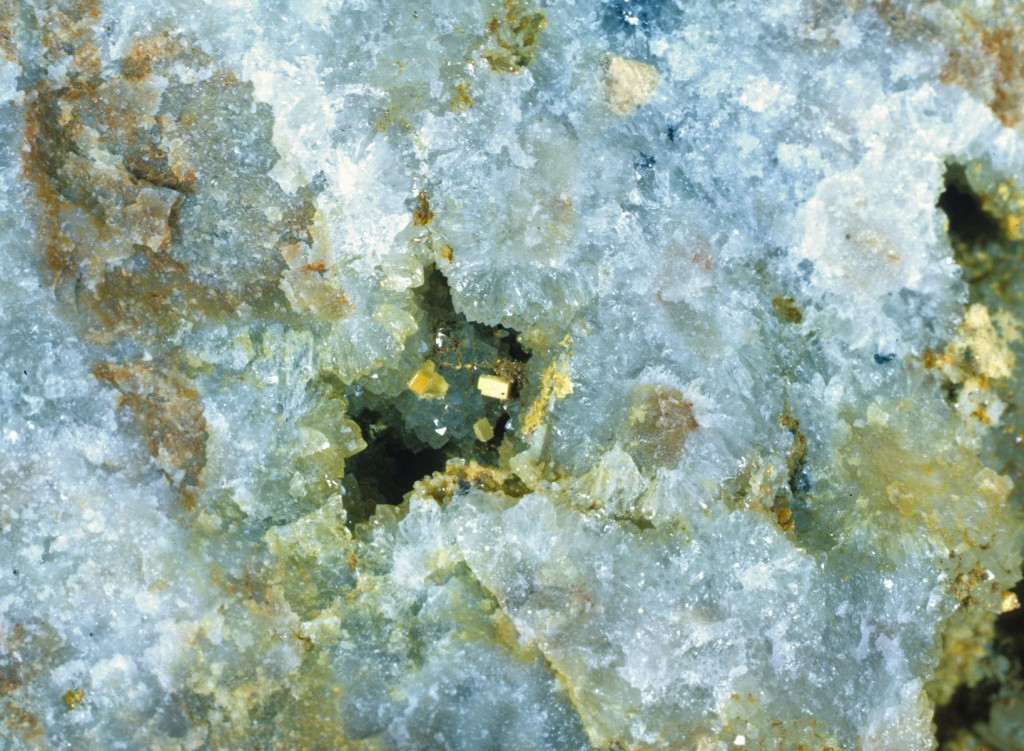 Paratellurite Locality: Moctezuma Mine (Bambolla Mine), Moctezuma, Mun. de Moctezuma, Sonora, Mexico Little yellow crystals of Paratellurite. Specimen is from the collection of Richard Gaines (1972). Field of view is about 2 cm.